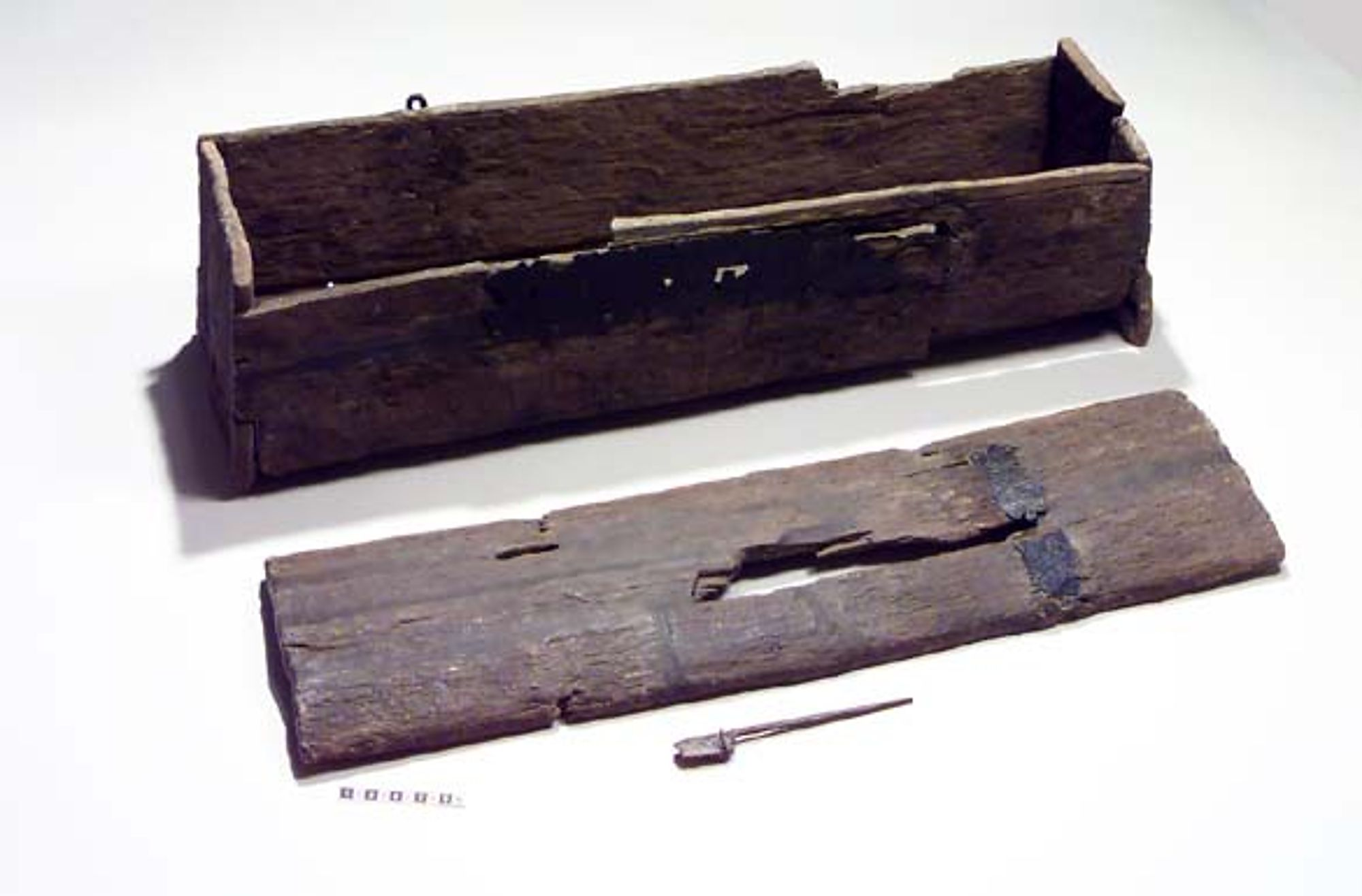 Camera: DCS315C Serial #: K315C-02225 Width: 1520 Height: 1008 Date: 1-03-30 Time: 14.16.35 DCS3xx Image FW Ver: 1.3.2 TIFF Image Look: Product Counter: [7646] 7 Min Aperture: f22 Exposure Mode: Manual (M) Compensation: -0.5 Flash Compensation: +0.0 Meter Mode: Center-Weight Flash: None Drive Mode: Single Focus Mode: AF-S/Wide Self-timer: No Focal Length (mm): 19.9 Lens Type: Gen 3 D-Type AF Nikkor or IX Focus Distance (m): 2.00